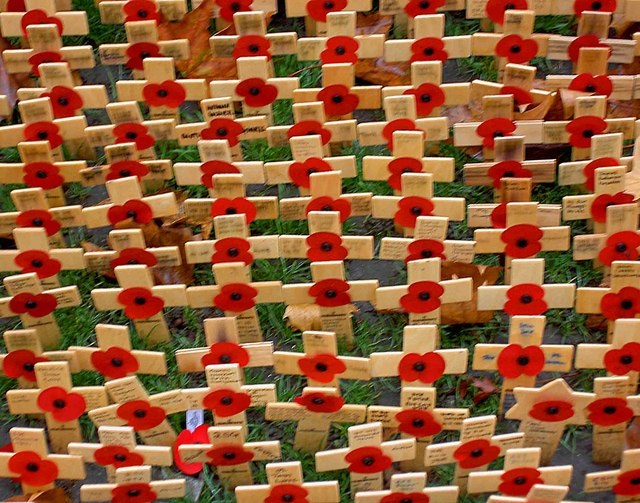 Lest we forget Field of remembrance poppies Westminster Abbey grounds.